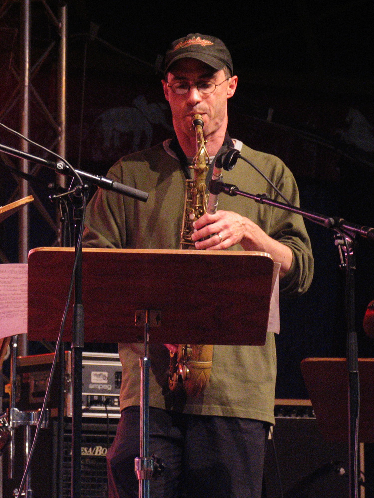 Ned Rothenberg at Moers Festival 2004 own photo, may 30, 2004 photo: nomo/michael hoefner